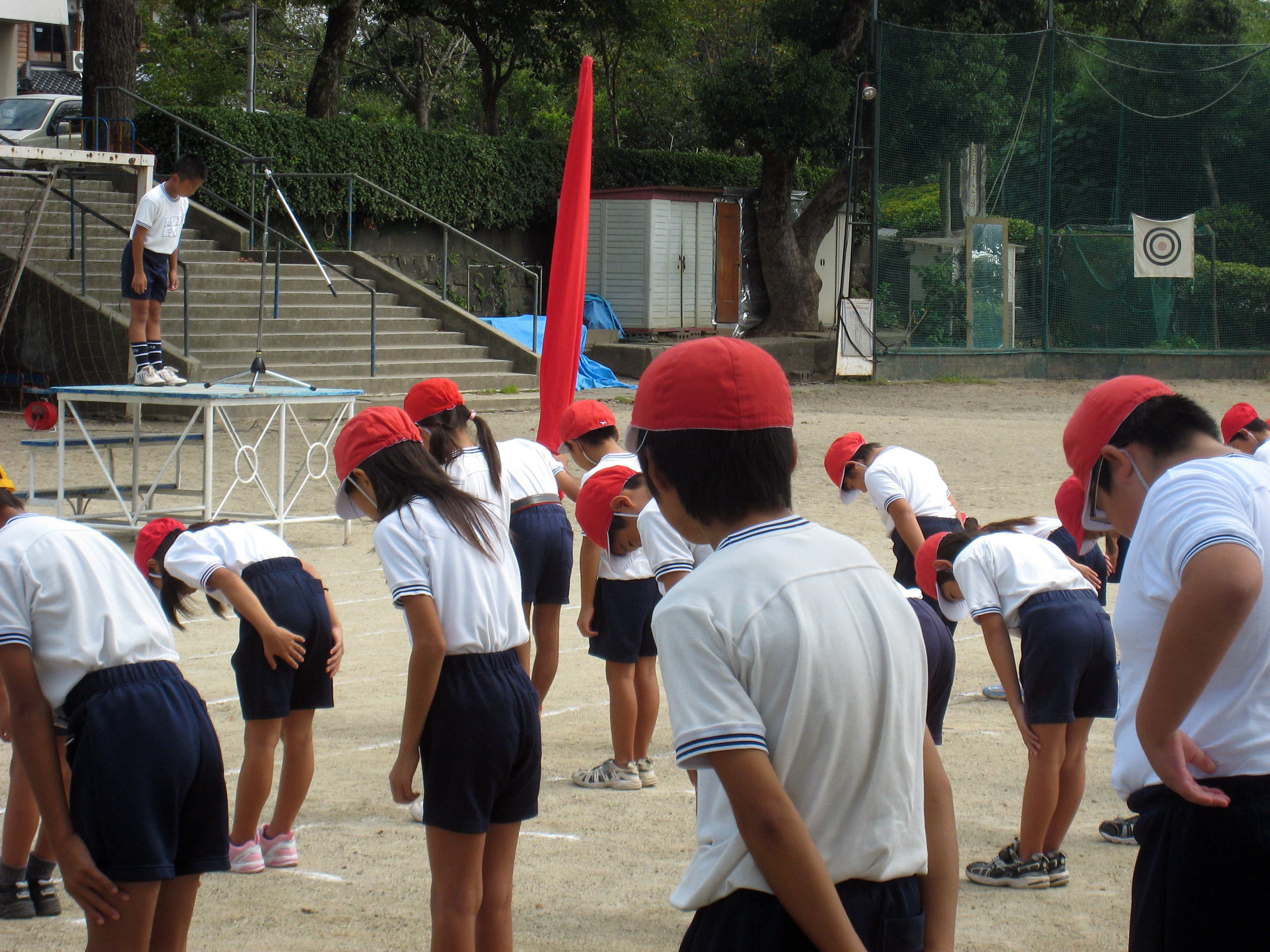 East Elementary School Sport Festival Practice